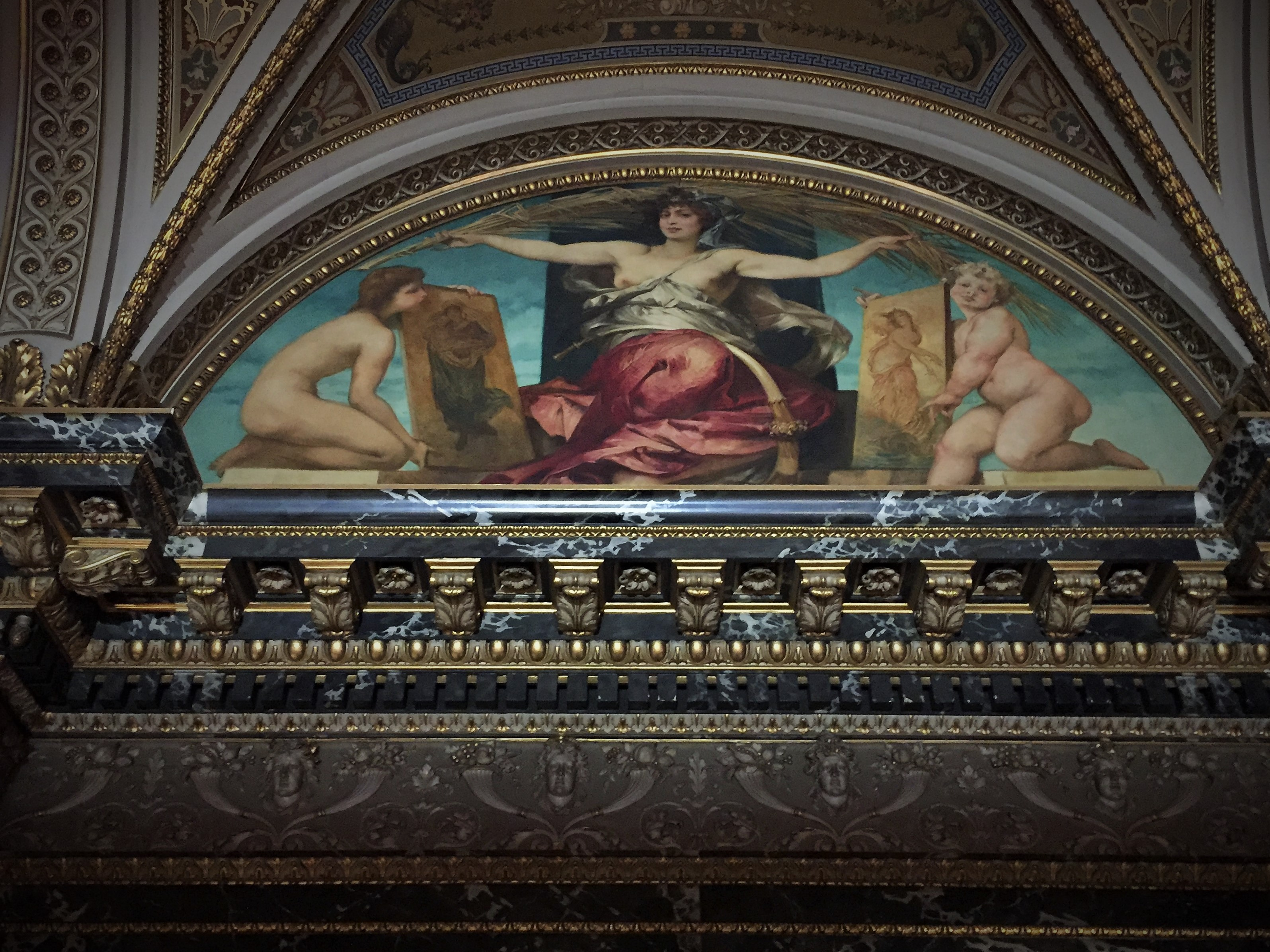 lunette